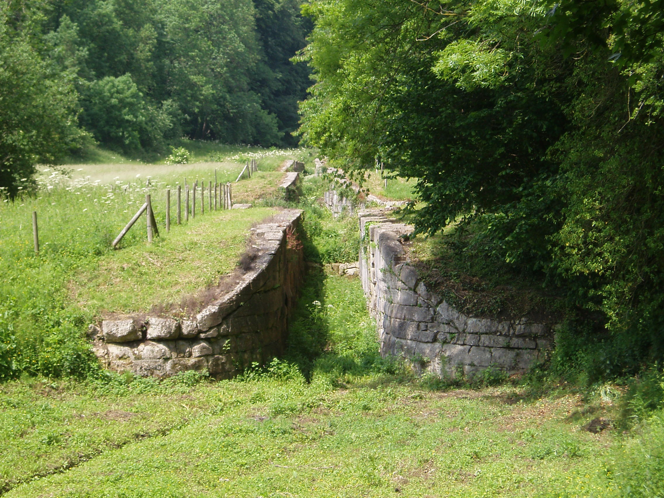 Three dry locks at Combe Hay, on the disused Somerset Coal Canal.